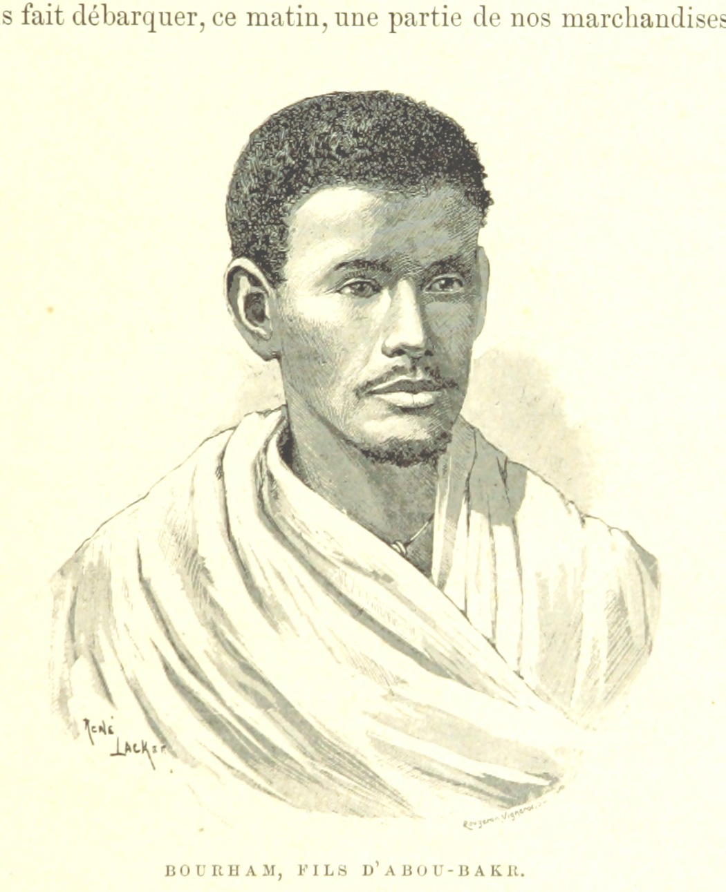 Image taken from: Title: "Éthiopie méridionale. Journal de mon voyage aux pays Amhara, Oromo et Sidama, septembre 1885 à novembre 1888. [With plates, including a portrait, and with maps.]" Author: BORELLI, Jules. Shelfmark: "British Library HMNTS 10095.i.9." Page: 31 Place of Publishing: Paris Date of Publishing: 1890 Issuance: monographic Identifier: 000416357 Explore: Find this item in the British Library catalogue, 'Explore'. Download the PDF for this book (volume: 0) Image found on book scan 31 (NB not necessarily a page number) Download the OCR-derived text for this volume: (plain text) or (json) Click here to see all the illustrations in this book and click here to browse other illustrations published in books in the same year. Order a higher quality version from here.